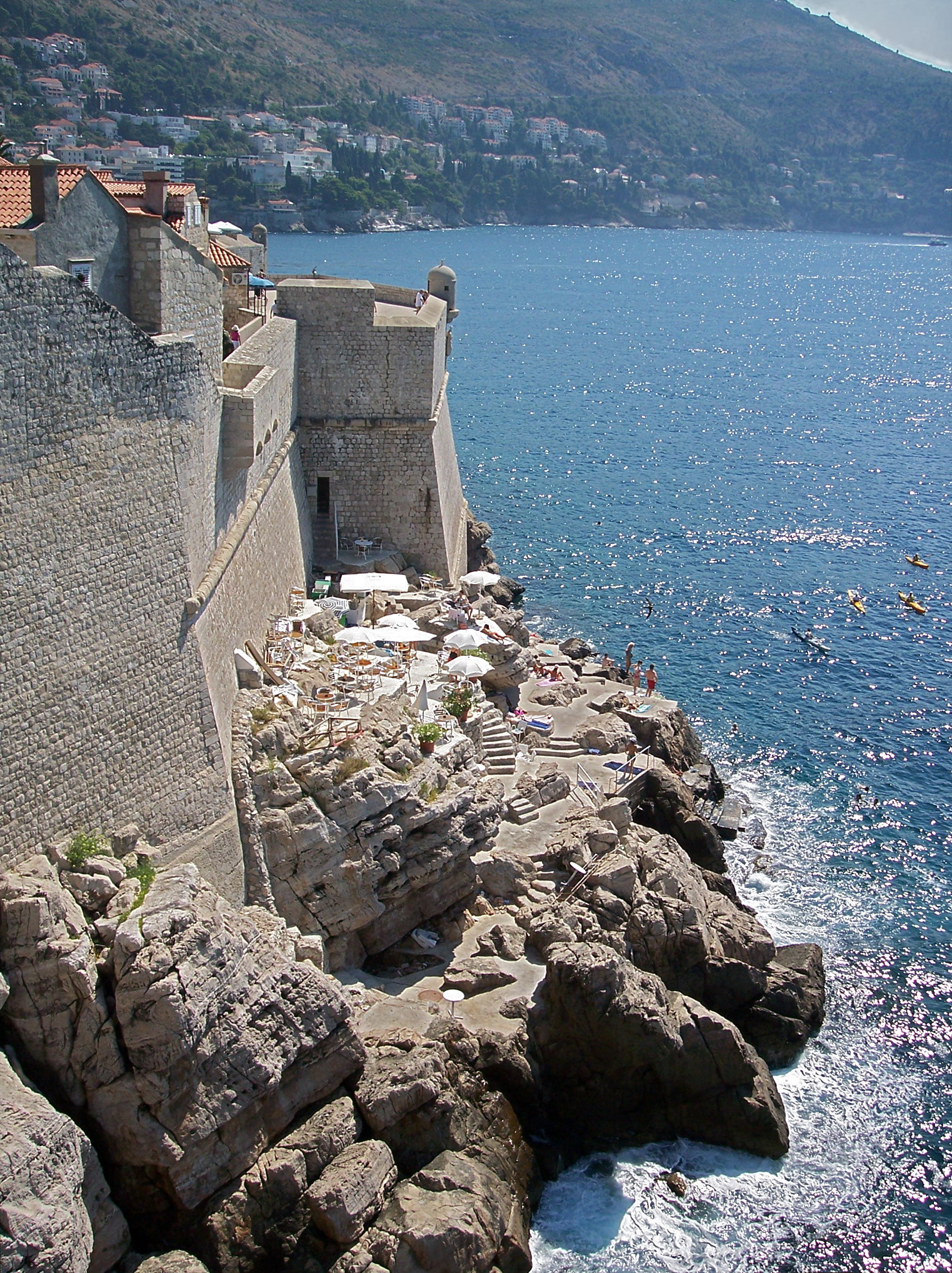 Walls of Dubrovnik (Croatia)